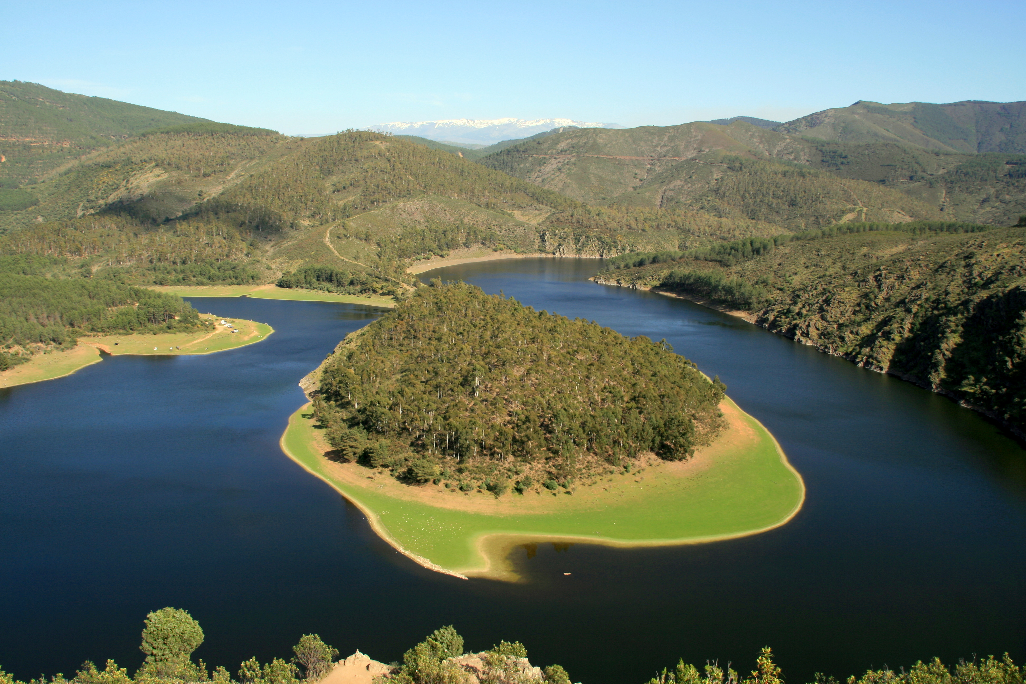 Melero Meander. This is a photography of a Site of Community Importance in Spain with the ID: ES4150107. Natura2000 entry, EEA entry